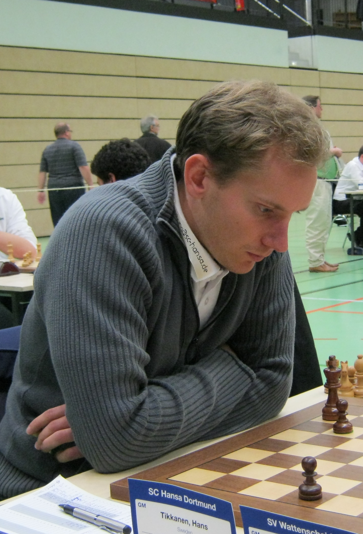 Hans Tikkanen, chess grandmaster from Sweden